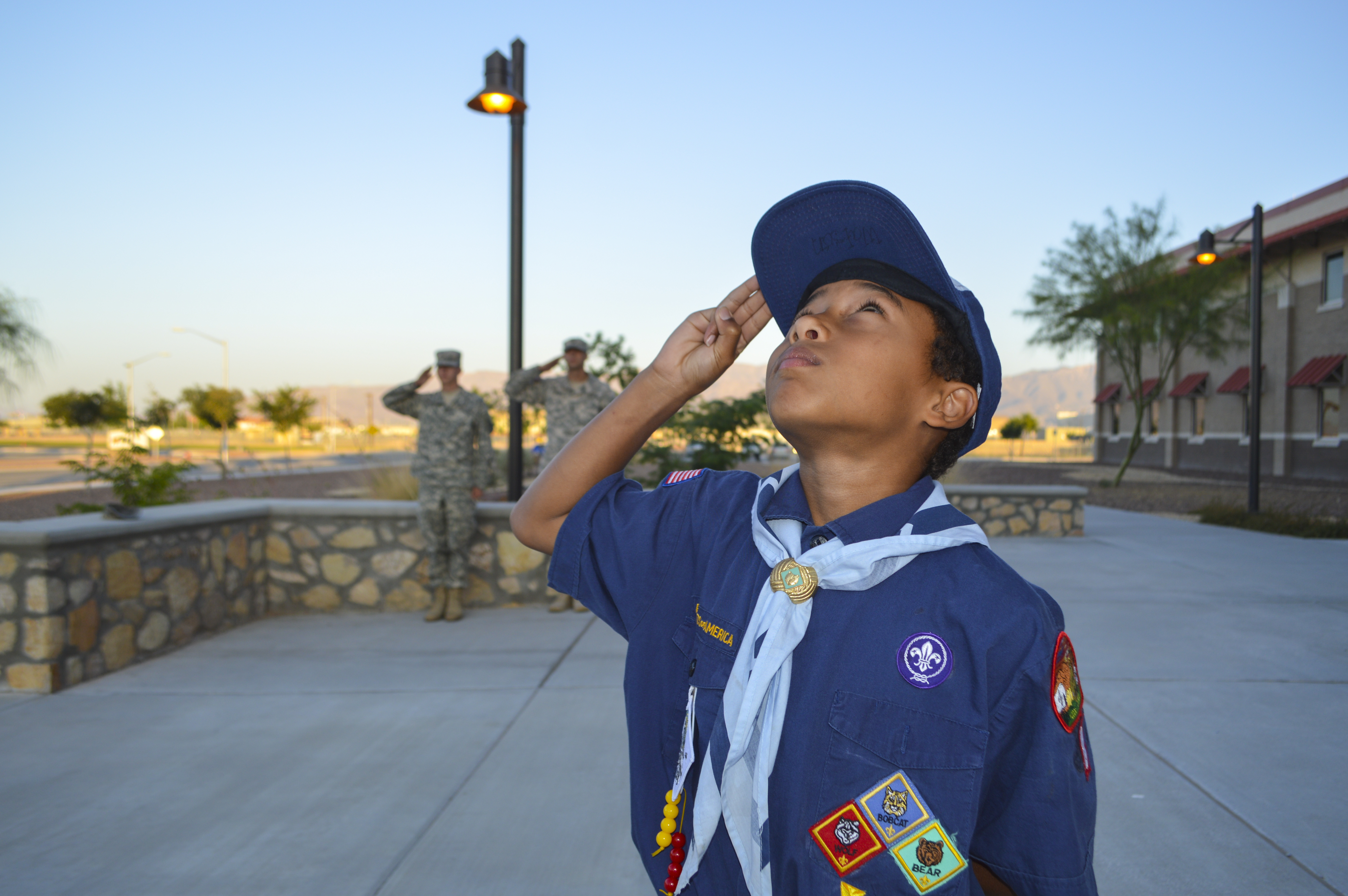 Jheriko Watson, a Bear with Pack 8 of El Paso’s Cub Scouts renders a Boy Scout Salute as the American flag is raised to “To the Colors,” officially starting the day for the Iron Eagles of 1st Armored Division Combat Aviation Brigade on Fort Bliss, Texas, Monday morning June 22, 2015. (U.S. Army photo by Sgt. Jose Ramirez, Combat Aviation Brigade Public Affairs, 1st Armored Division)